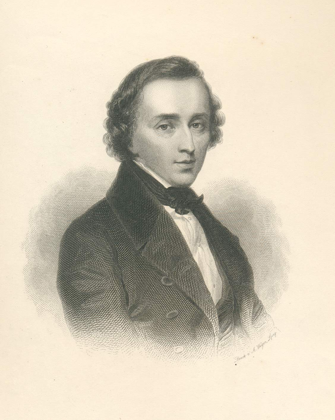 etching of Fréderik Chopin at age 23